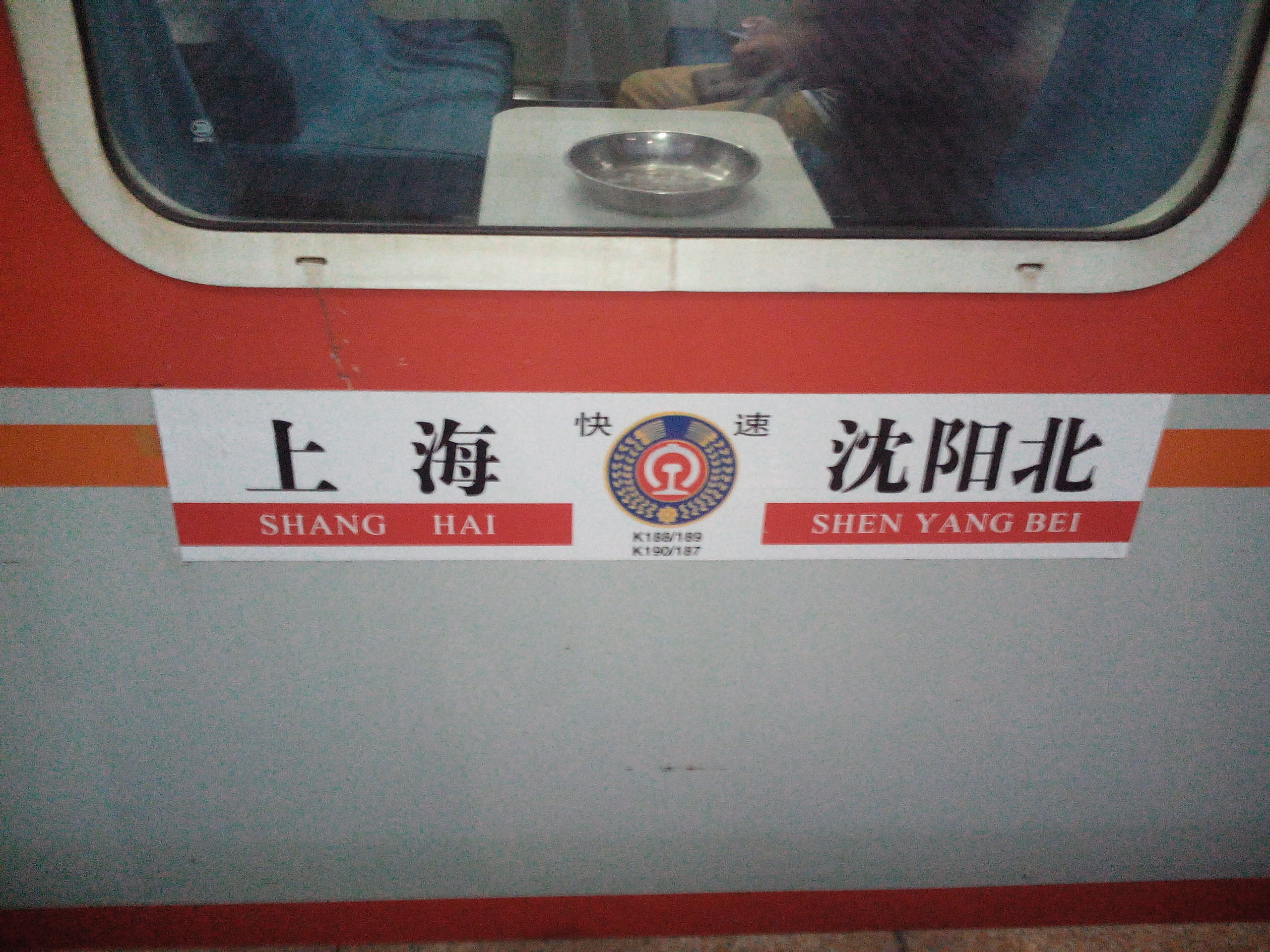 Shenyangbei to Shanghai K187 8 9 90 inboboard in 201510